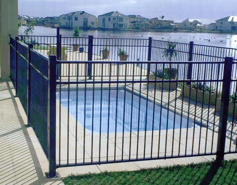 This picture was taken by A-Comfence Pty Ltd of a pool fence in the western suburbs of Melbourne, Victoria, Australia, note that this pool fence failed the pool regulations due to the flower/plant pots inside the pool area.